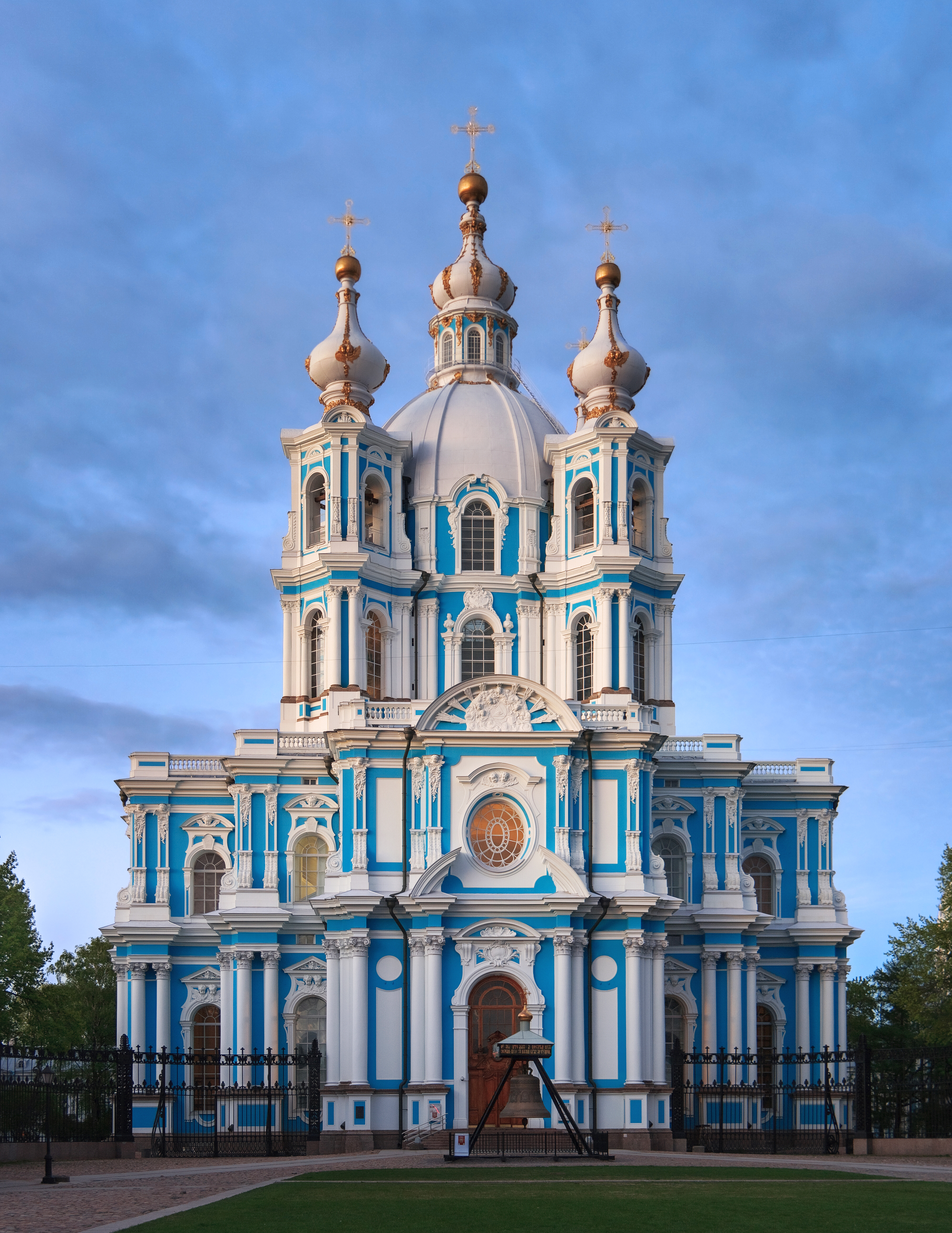 Smolny Cathedral, Saint Petersburg, Russia